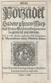 Title page of "Porządek sądów y spraw Mieyskich Prawa Maydeburskiego" by Bartlomiej Groicki, from 1562 published by the printing house of Łazarz Andrysowicz